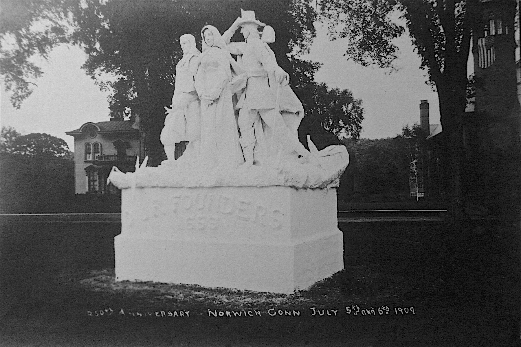 Temporary Founders Monument for the 350th Anniversary